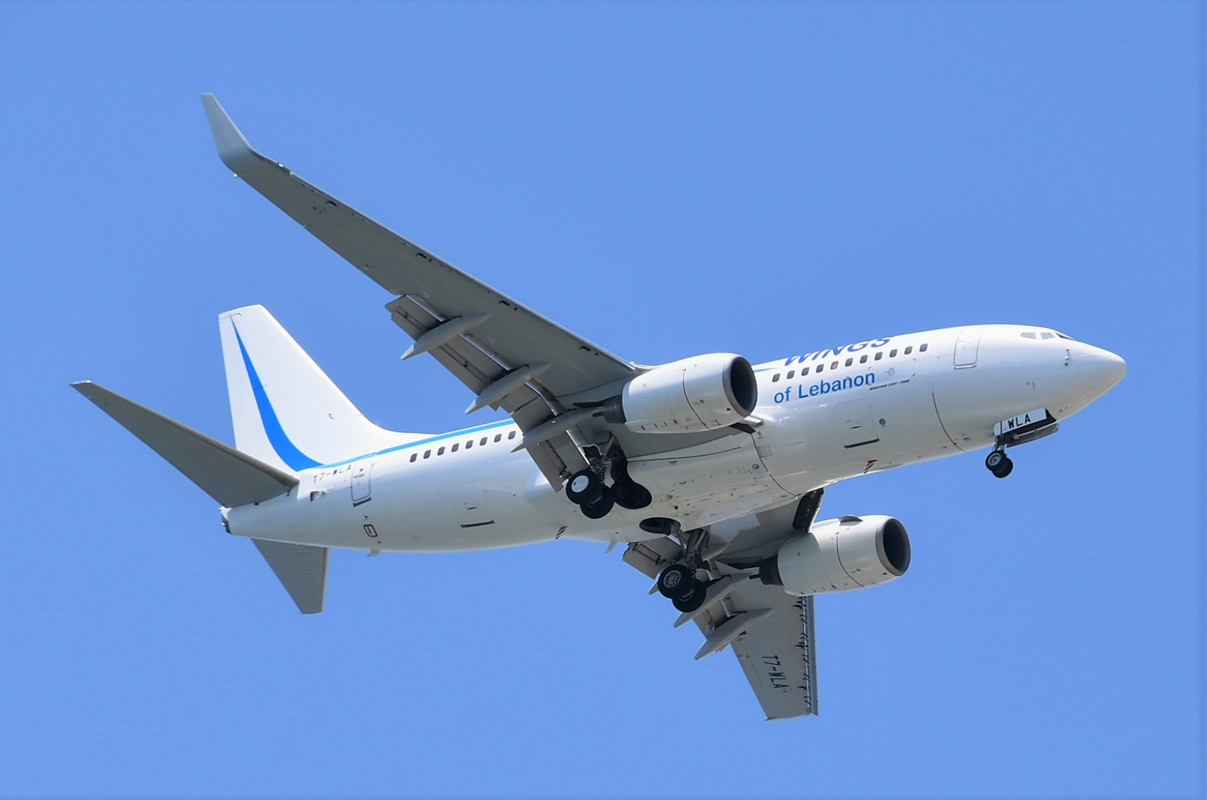 Boeing 737/7W of Wings of Lebanon on approach to rwy. 36L at Antalya-AYT, Turkey, 08/06/18.